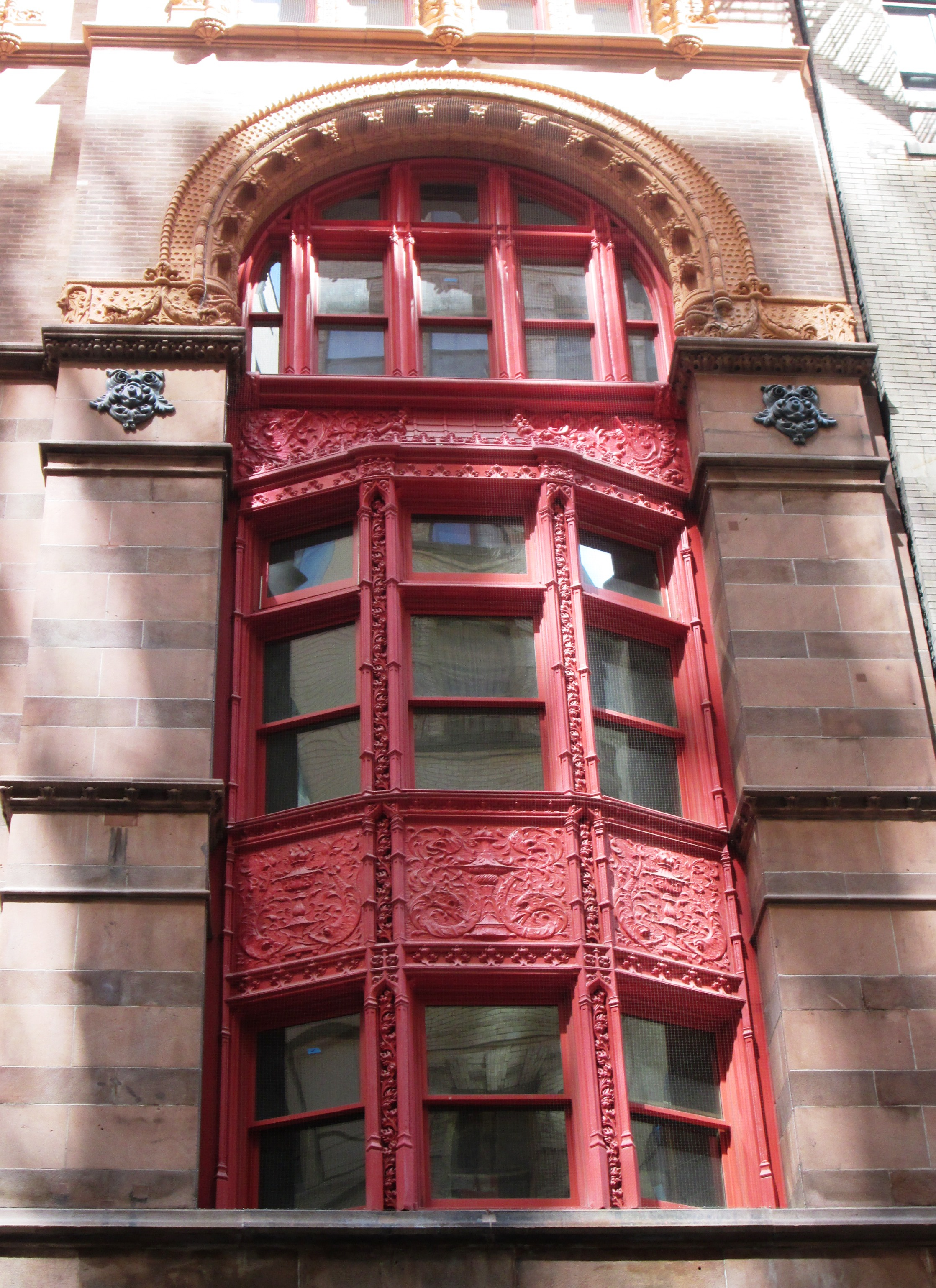 The Corbin Building is a historic former office building located at 13 John Street at the corner of Broadway – where it is numbered as 192 – in the Financial District of Manhattan, New York City. It was built in 1888-89 and was designed by Francis H. Kimball in the Romanesque Revival style. The building was named for Austin Corbin, a president of the Long Island Rail Road. It is currently being rehabilitated by the MTA as part of the Fulton Center project. The ground and basement levels of the building will be incorporated into the Transit Center and serve as an entrance to the subway station below. The exterior and interior of the building will be restored to resemble its original 19th century construction as closely as possible.